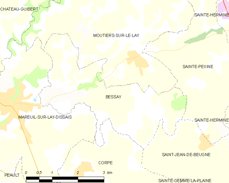 Map of French municipality Bessay